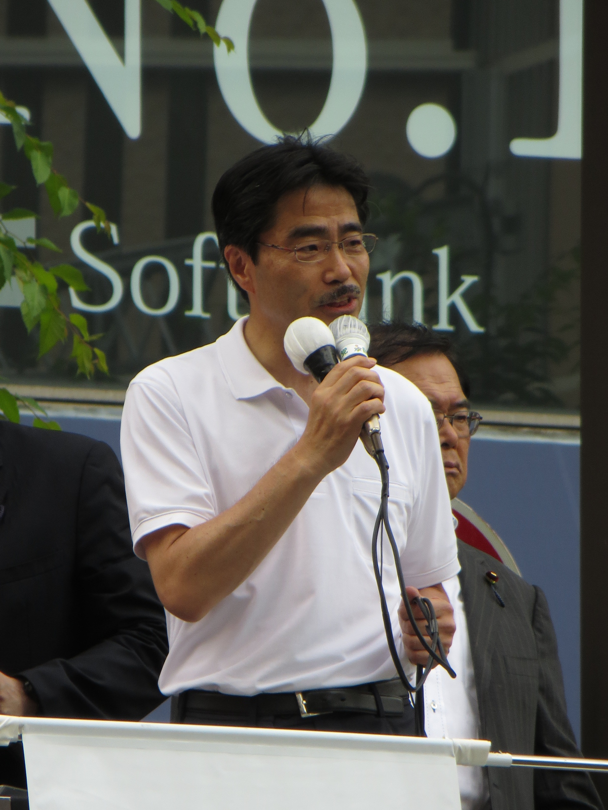 Masaru Wakasa (Lawyer from Japan).